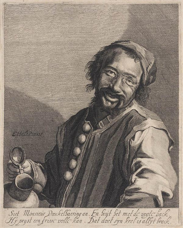 Peeckelhaering